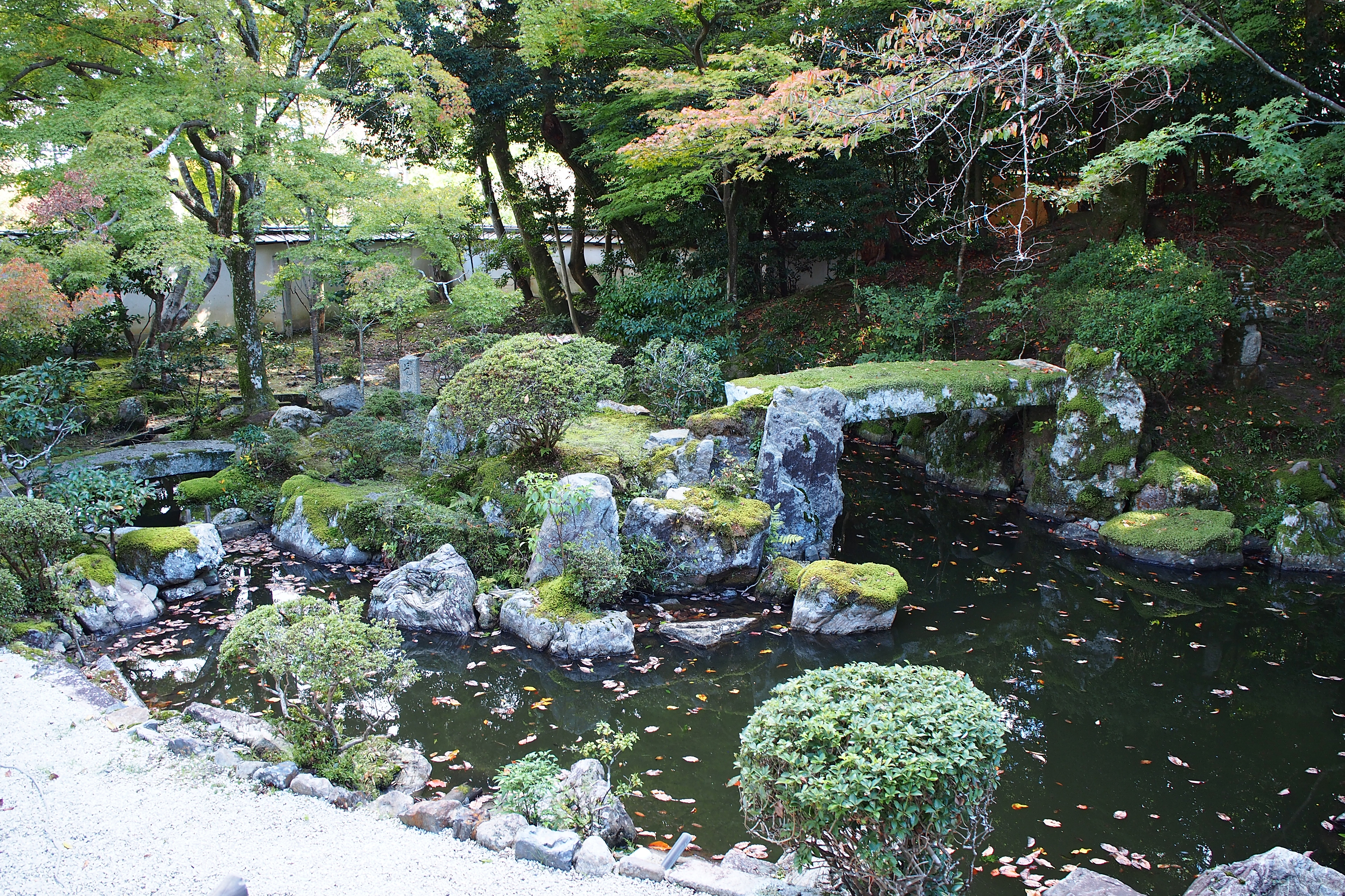 Enman-in in Otsu, Shiga prefecture, Japan